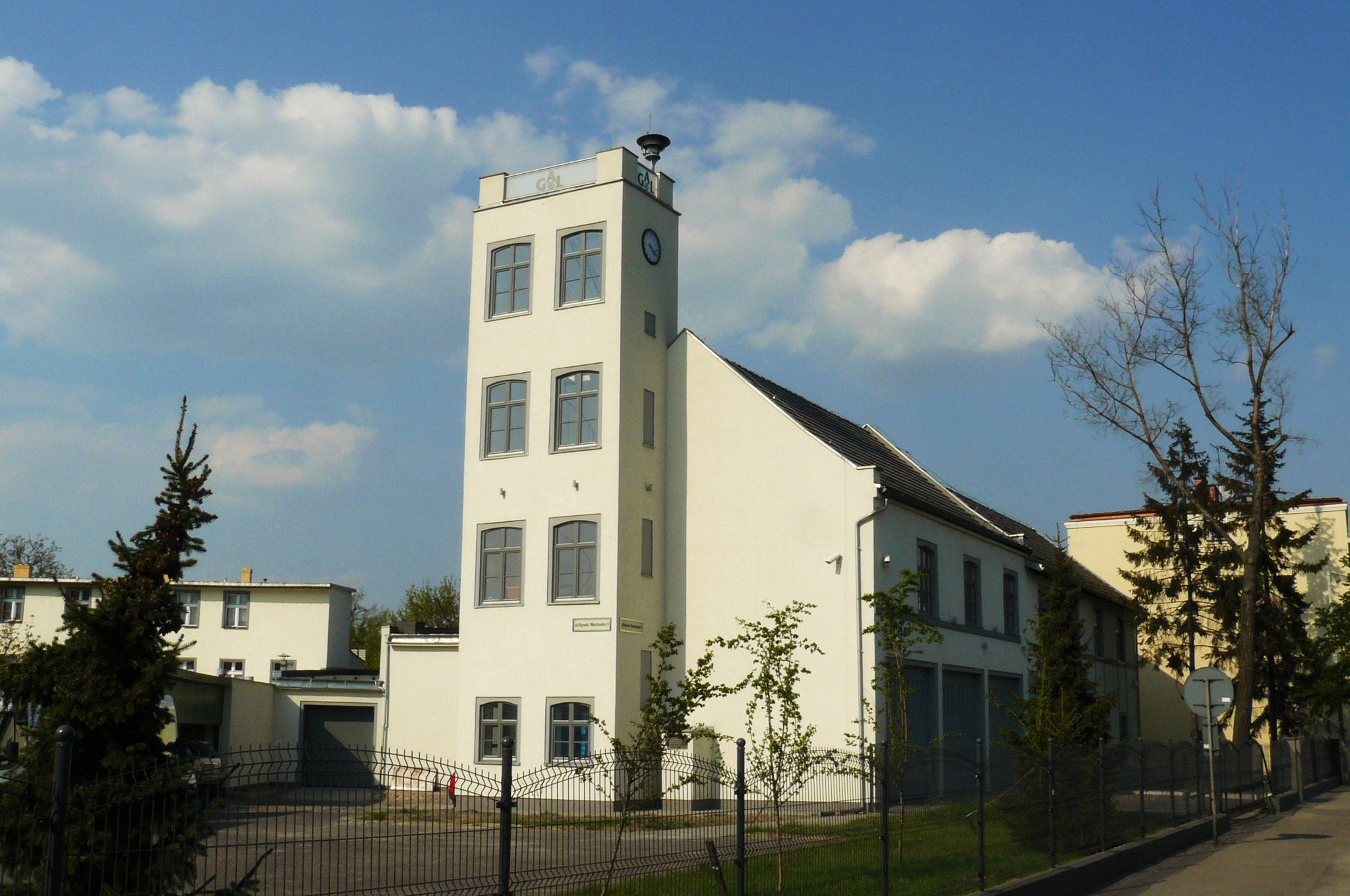 Firefighter House, Poznan, East Market Square.